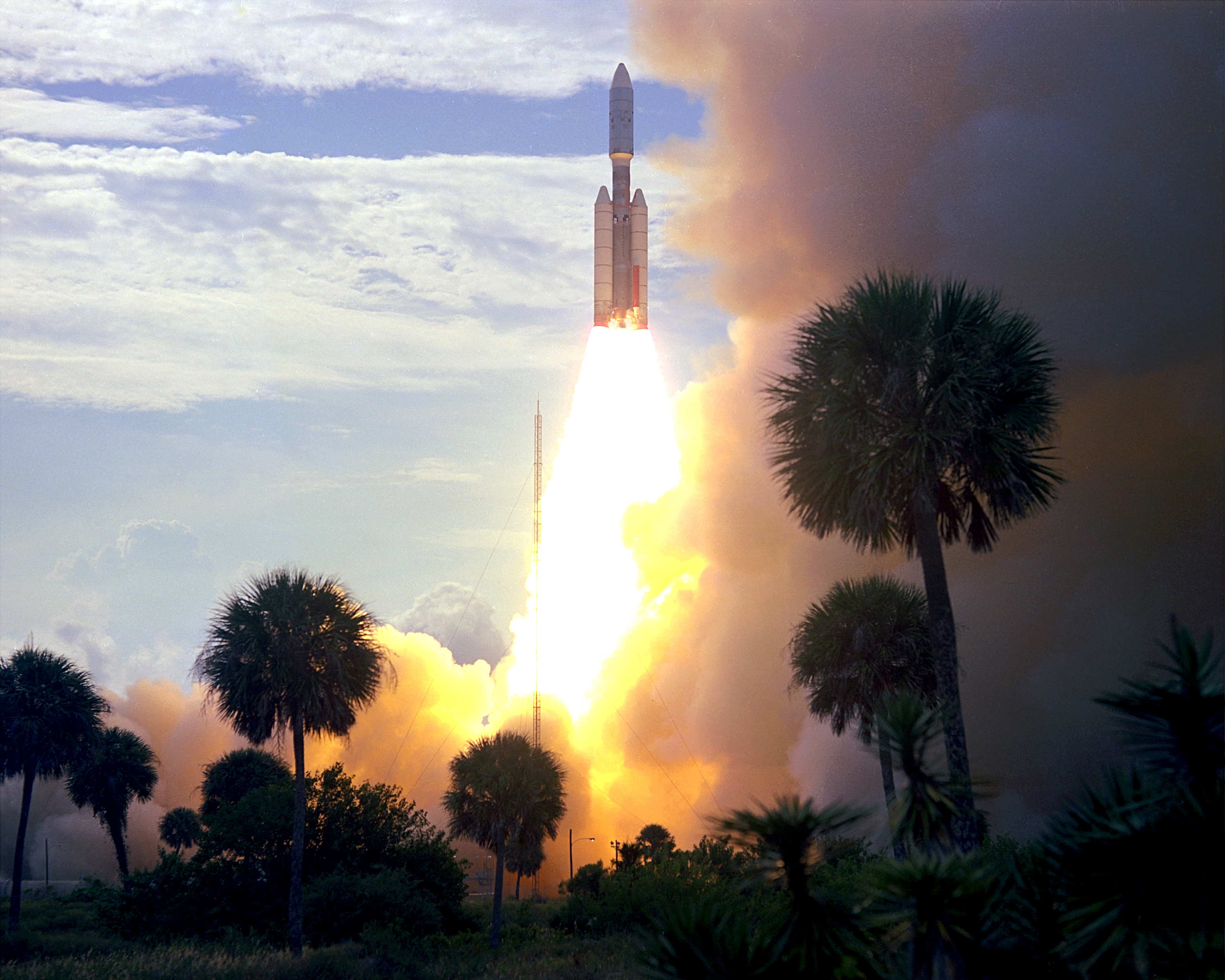 Viking 1 was launched by a Titan/Centaur rocket from Complex 41 at Cape Canaveral Air Force Station at 5:22 p.m. EDT to begin a half-billion mile, 11-month journey through space to explore Mars. The 4-ton spacecraft went into orbit around the red planet in mid-1976.